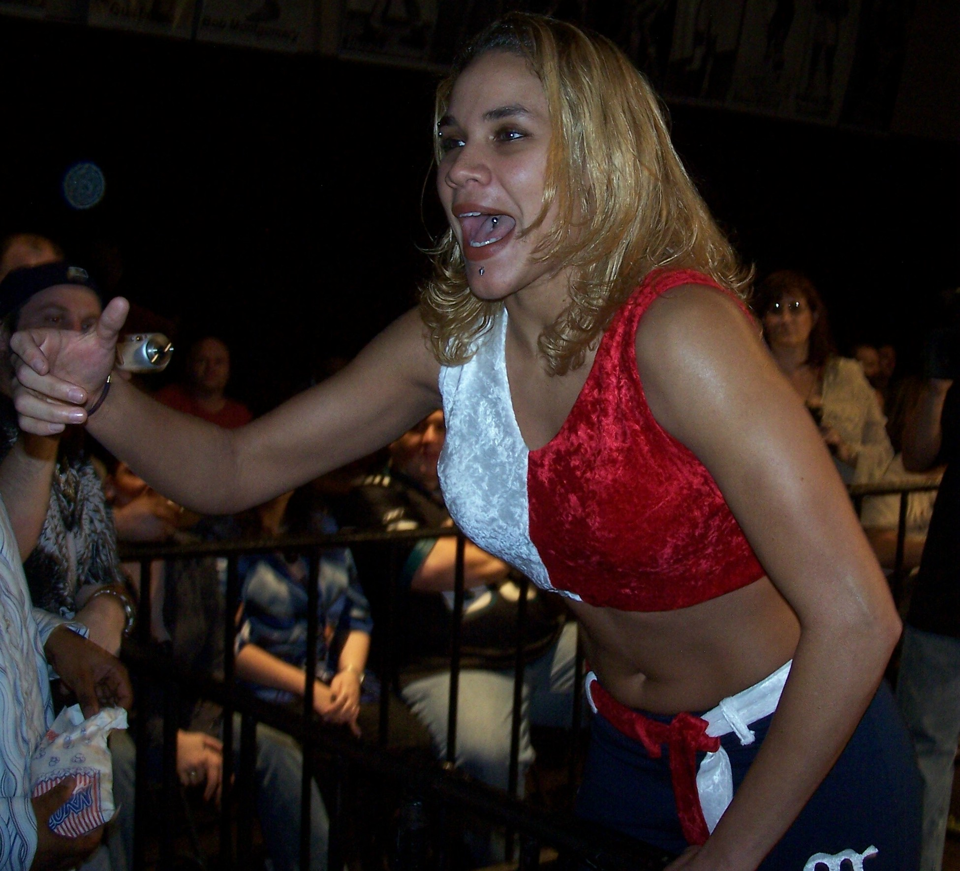 Mercedes Martinez at a Women's Extreme Wrestling event in 2006.